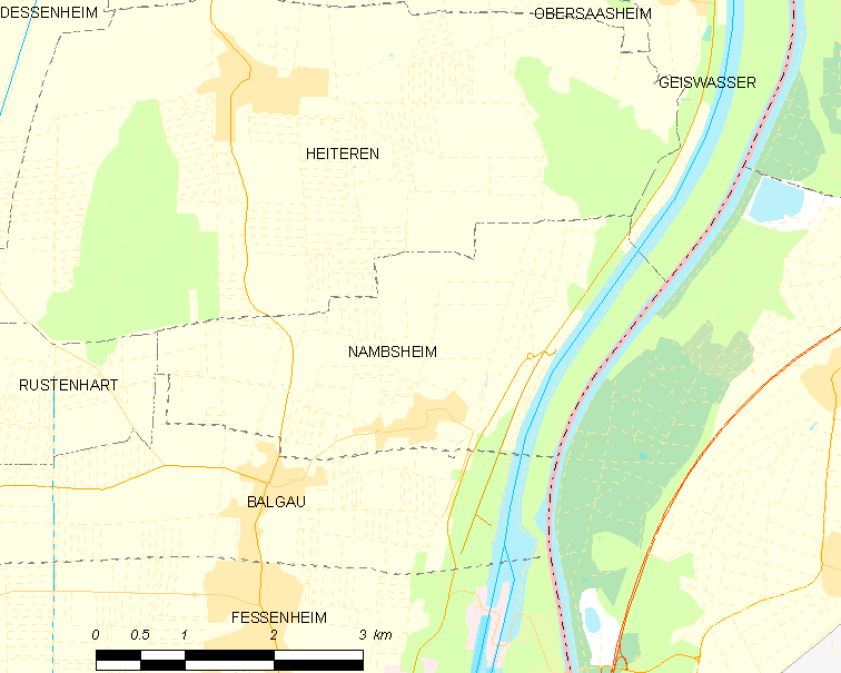 Map of French municipality